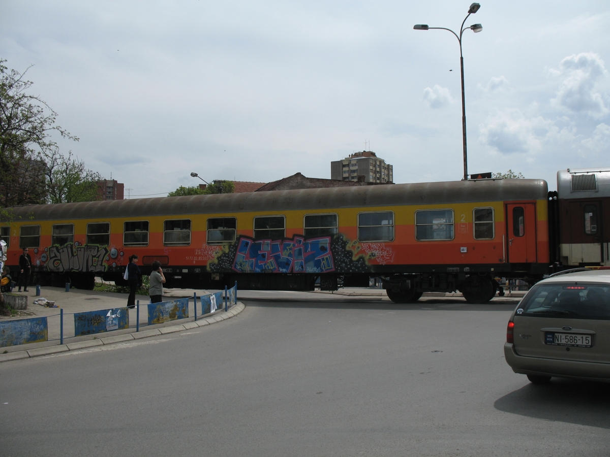 Train passing through Niš, Serbia.